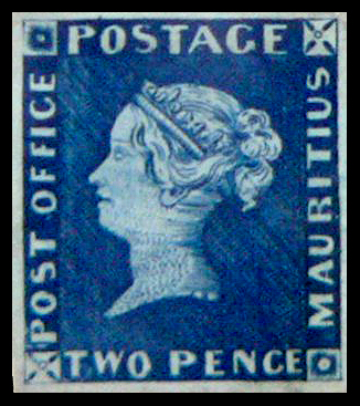 Blue Mauritius stamp, English Royal Family´s stamp collection, European stamp exibition Brno 2005